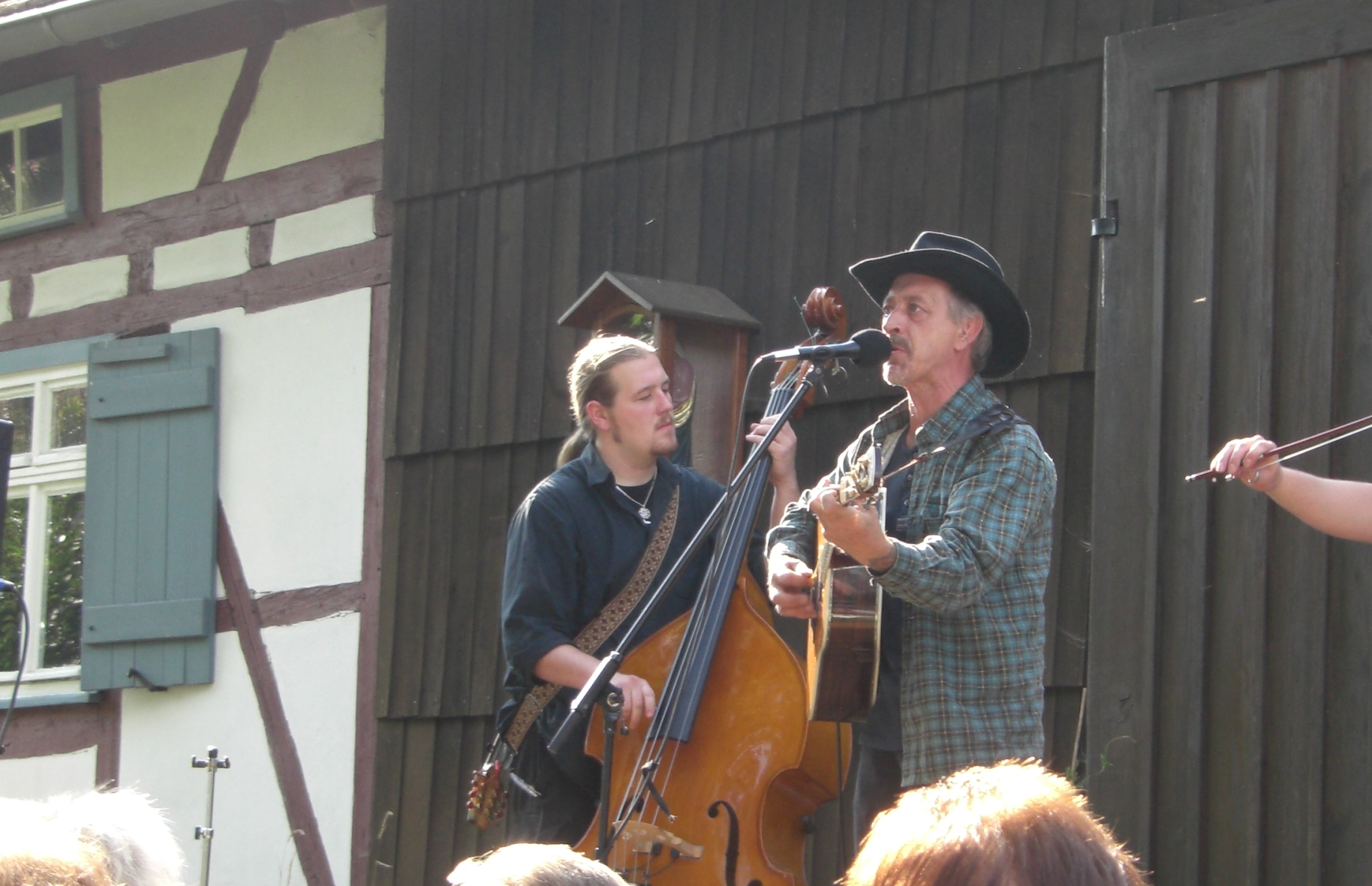 Folk band Grasmücken in Flieden on 17 August 2008.